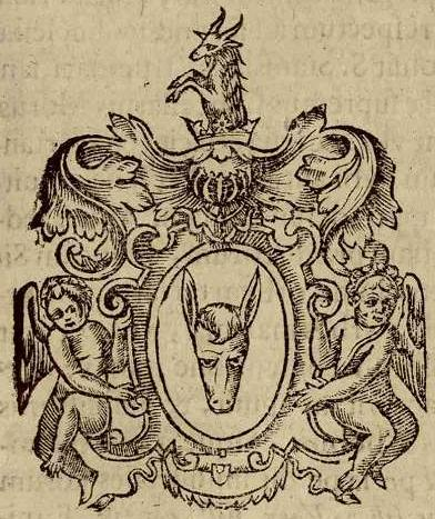 Coat of arms Półkozic from Orbis Poloni